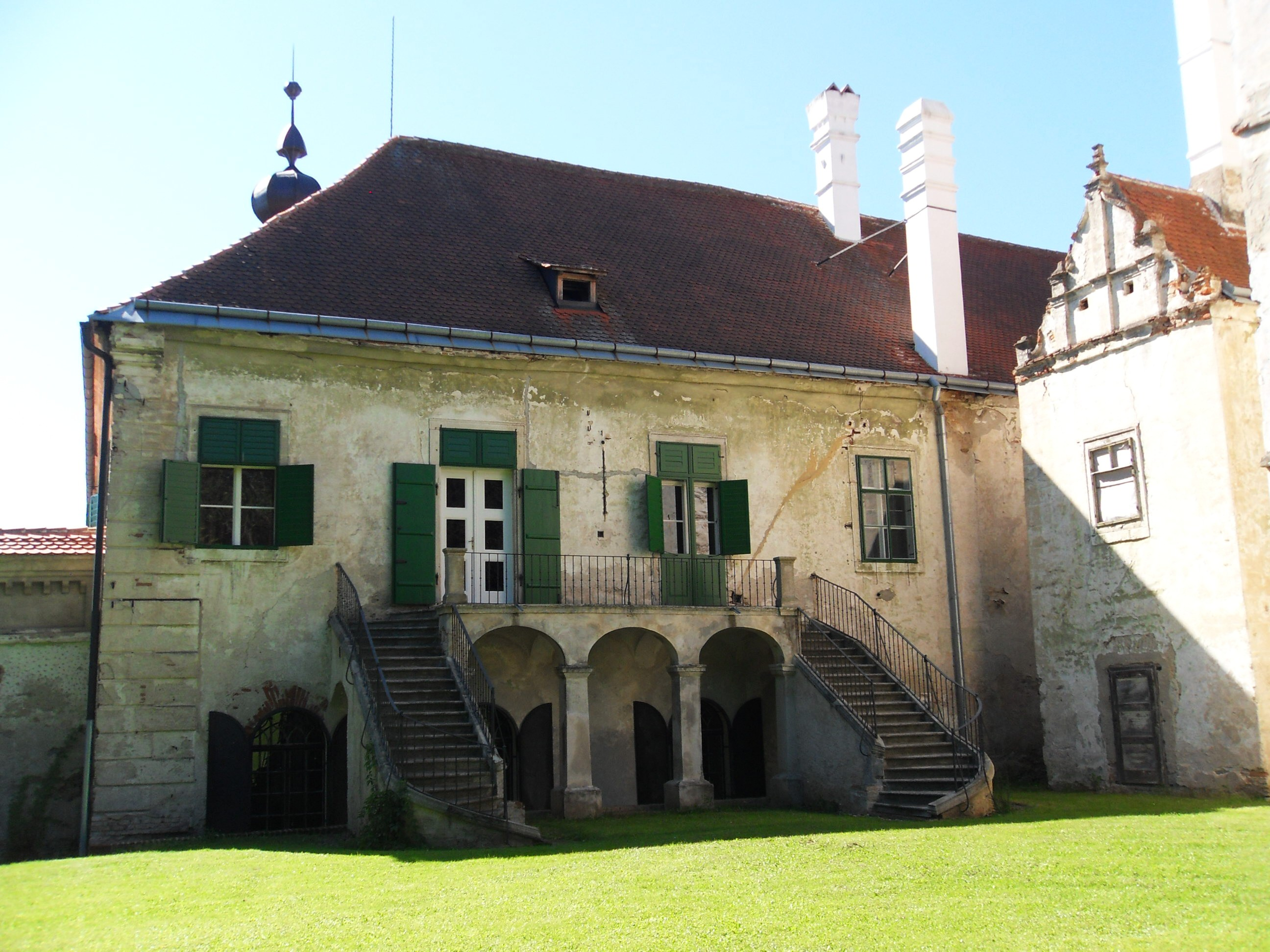 Uherčice castle, Znojmo district, Czech Republic